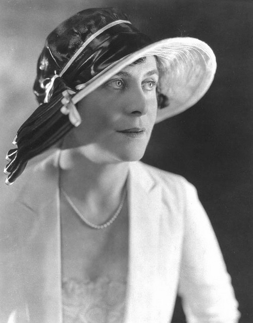 Berenger, Clara S., Miss, portrait photograph